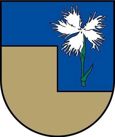 Coat of arms of Mazsalaca municipalityLatviešu: Mazsalacas novada ģerbonis